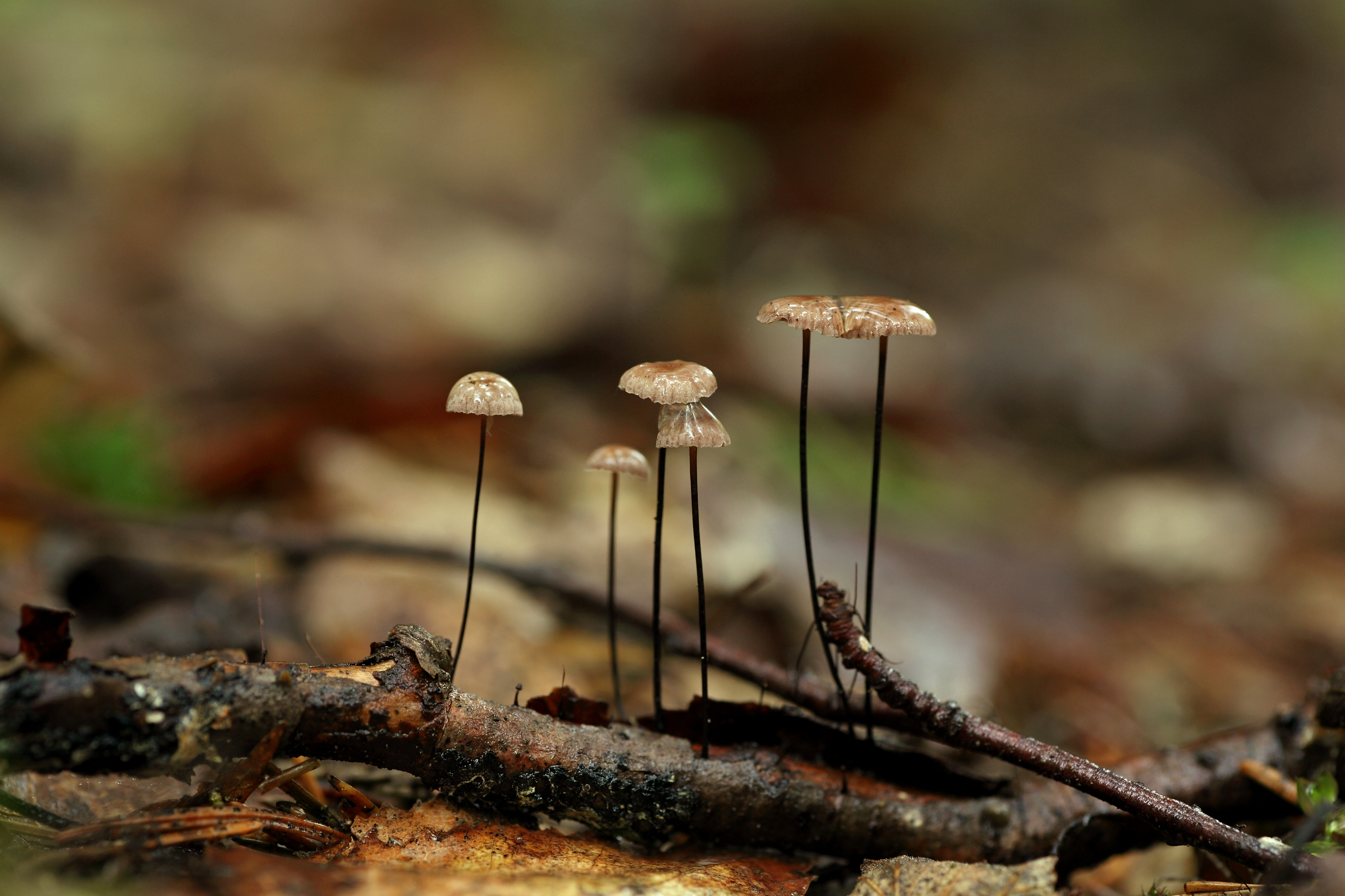 Horsehair parachute in Albu Parish, Estonia